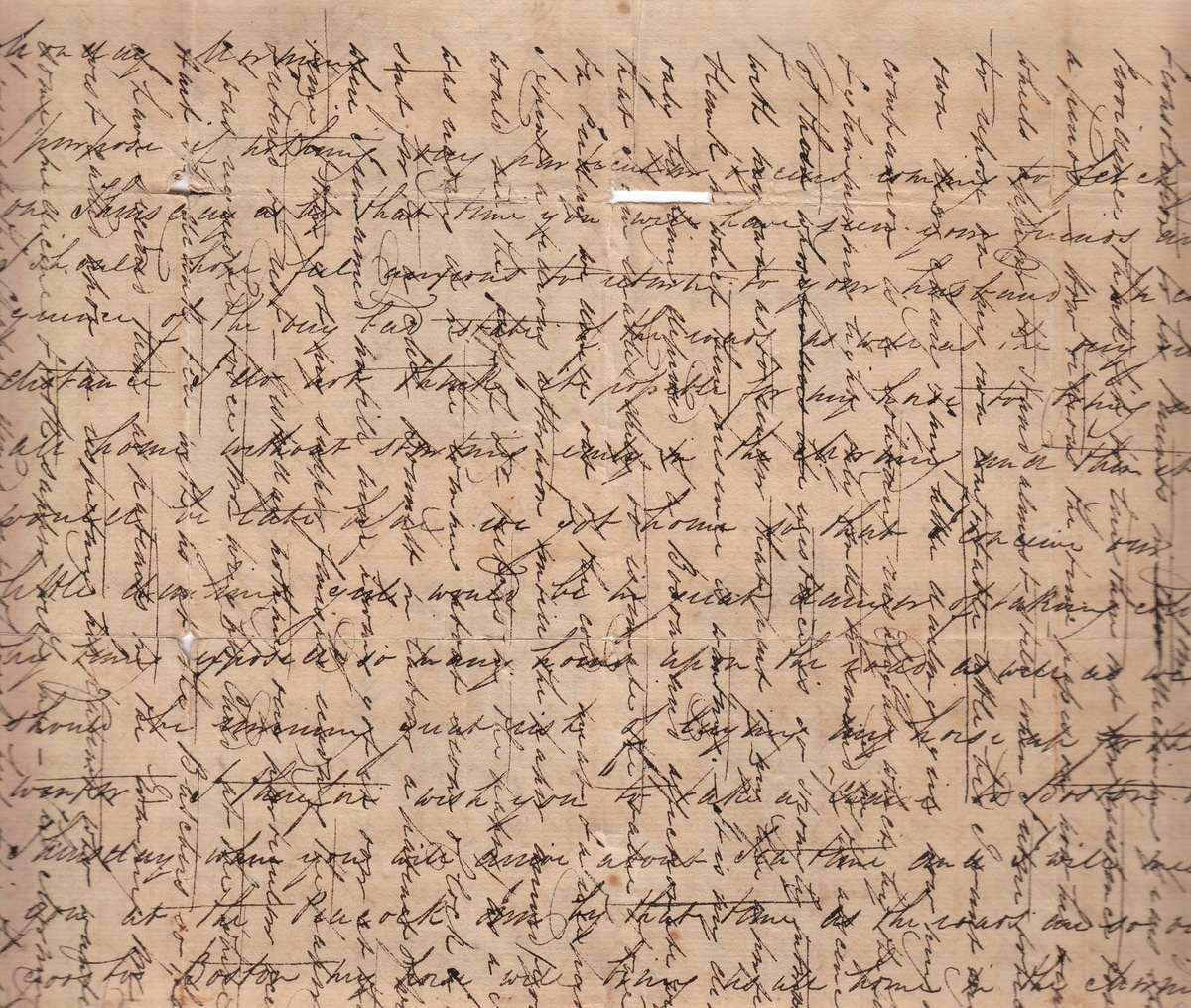 A crossed letter; England; early 19th century.